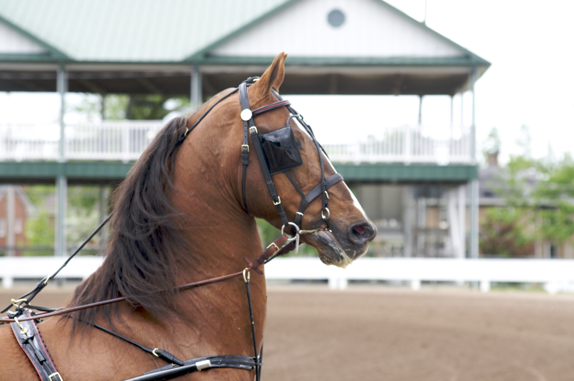 Saddlebred Stallion in Harness